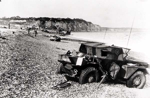 Dieppe's pebble beach and cliff immediately following the raid on August 19th, 1942. A scout car has been abandoned.